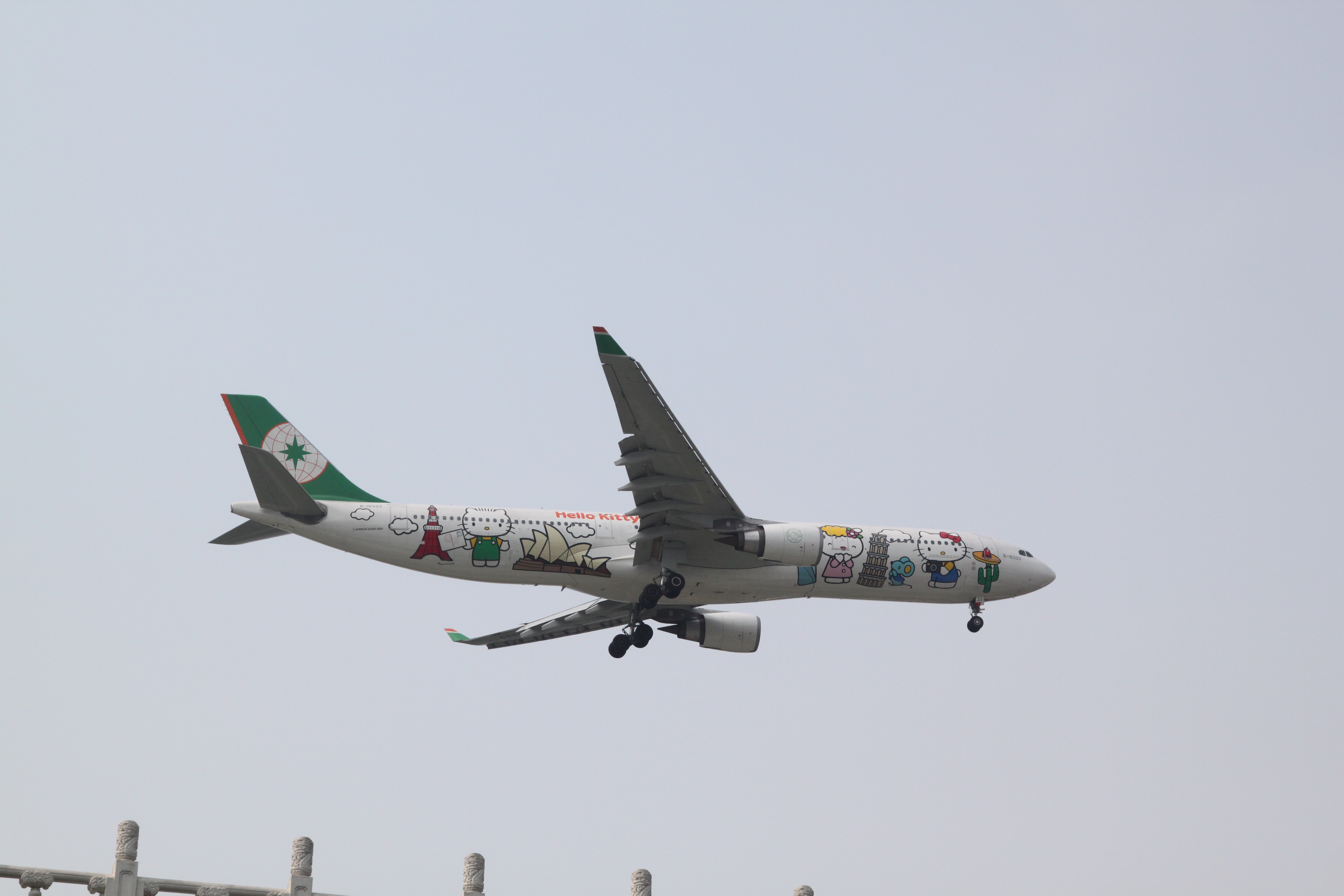 EVA Air A330-300 Hello Kitty Around The World Aircraft (B-16333)